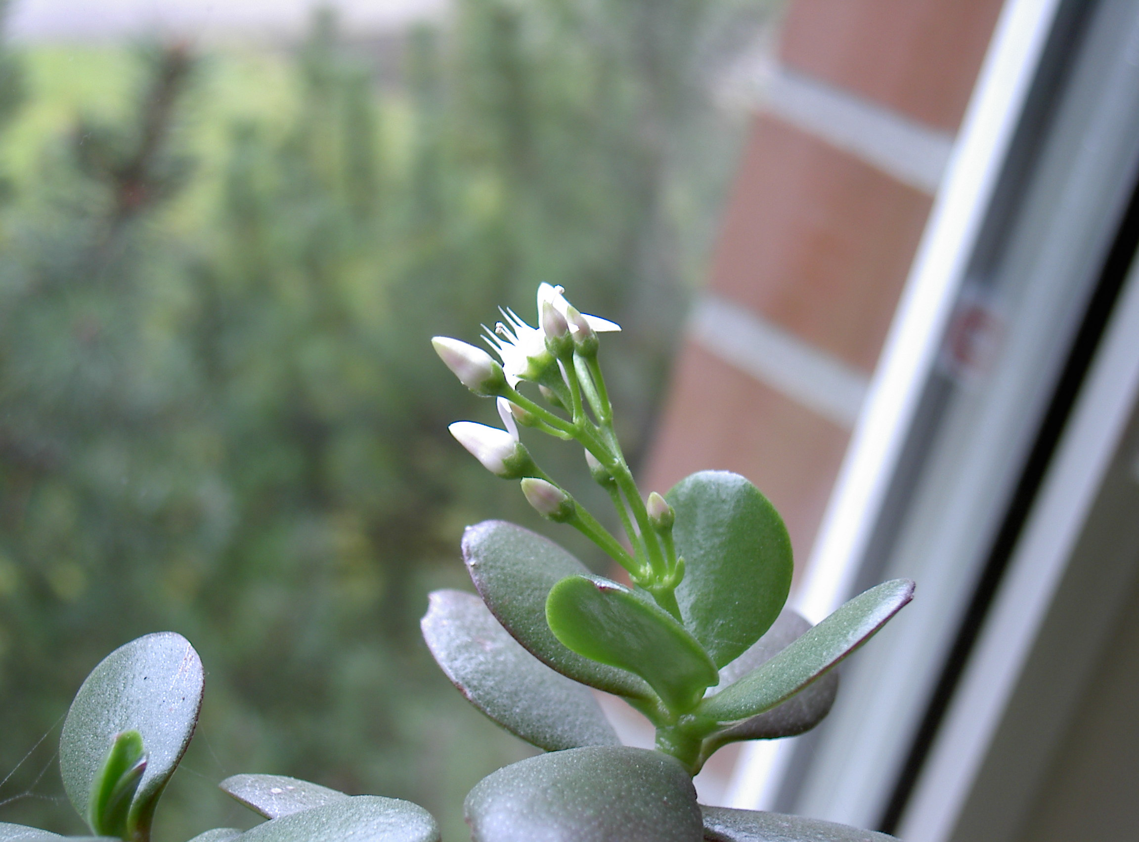 Crassula ovata in bloom, shot indoors in Hamburg, Germany, December 2002 Image history of Bild:Geldbaumblüte 4.JPG: (Löschen) (Aktuell) 22:41, 9. Jan 2005 . . Hermainski . . 2304 x 1704 (496698 Byte) (Blühender Geldbaum, Hamburg Dez. 2002)